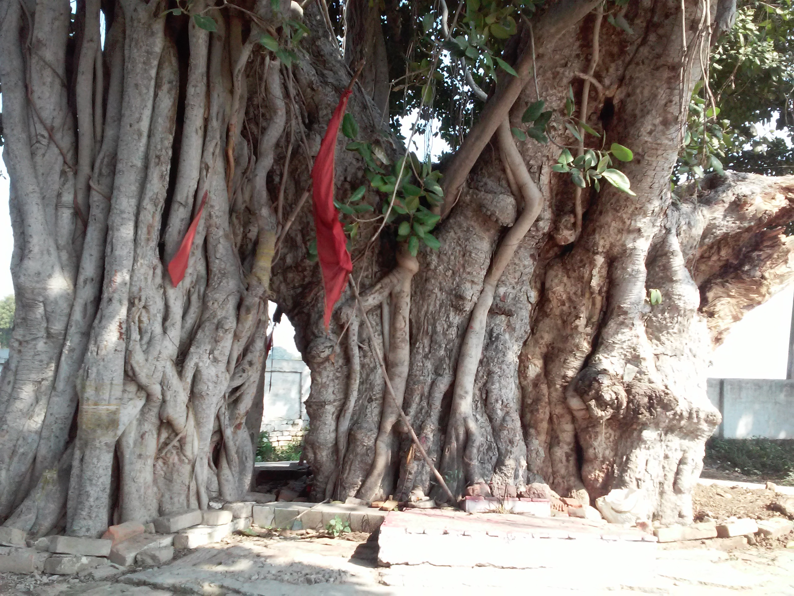 A wonderful visiting tree is standing with support of its stems roots is situated in the compound of Shiv Bajrang Dham Kishunpur adjacent to Bhatauli -Rura Town at a distance 2 kilometers from Railway Station Rura (NCR)